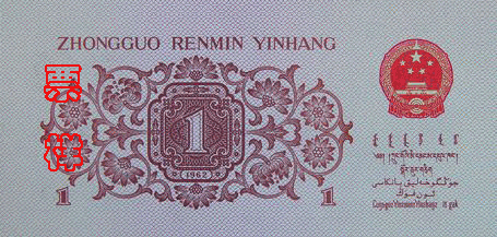 Third series of the renminbi 1jiao(sample)